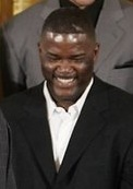 2004 Detroit Pistons congratulated by President George W. Bush. See in the picture, Ben Wallace to the left of Bush, General Manager Joe Dumars in first row center, Tayshaun Prince, Darvin Ham and Richard Hamilton (basketball) from left to right, back row.